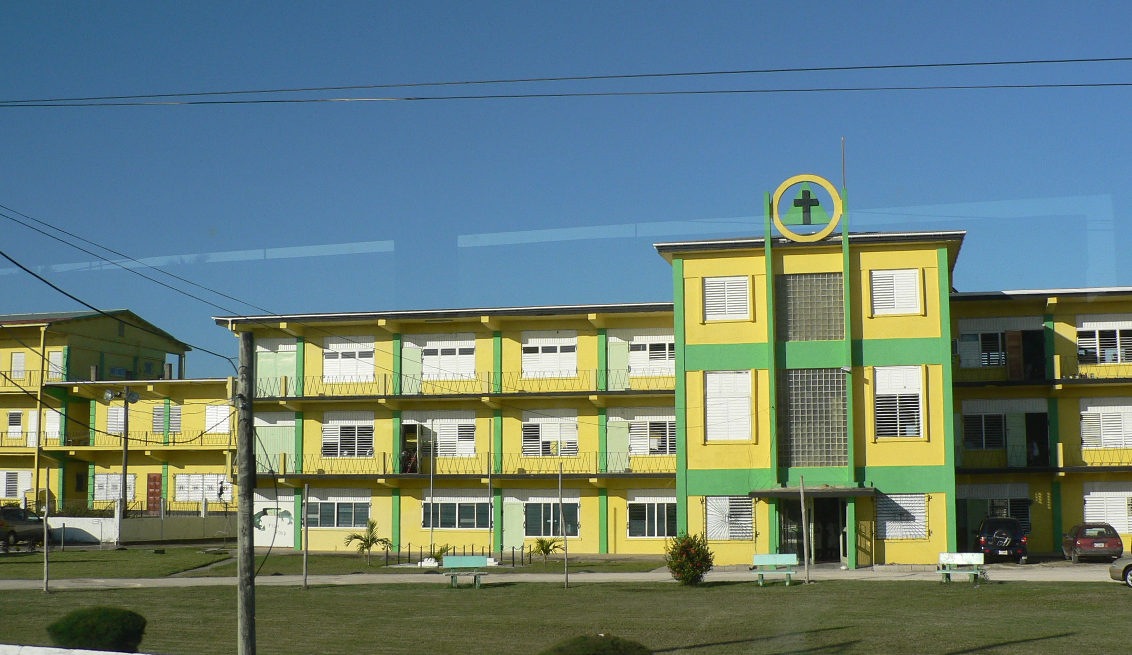 Belize City Catholic school.